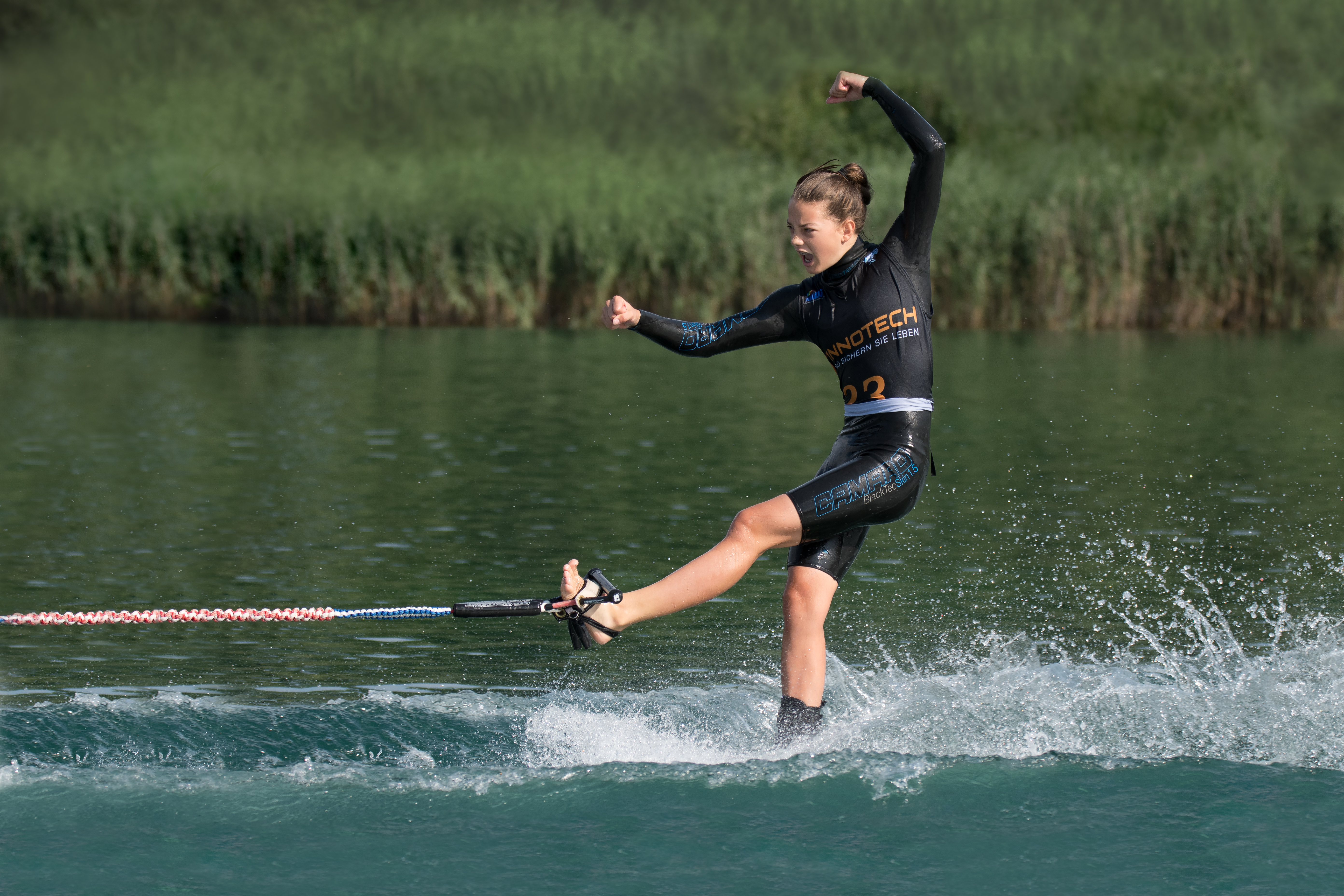 Waterski MEVISTO AUSTRIAN OPEN 2017; Trickski; Theresa SCHMIDBERGER